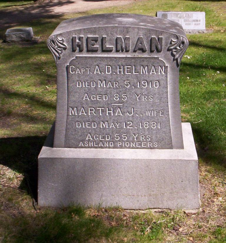 I personally took this photo. Ashland Cemetery, Ashland, Oregon.